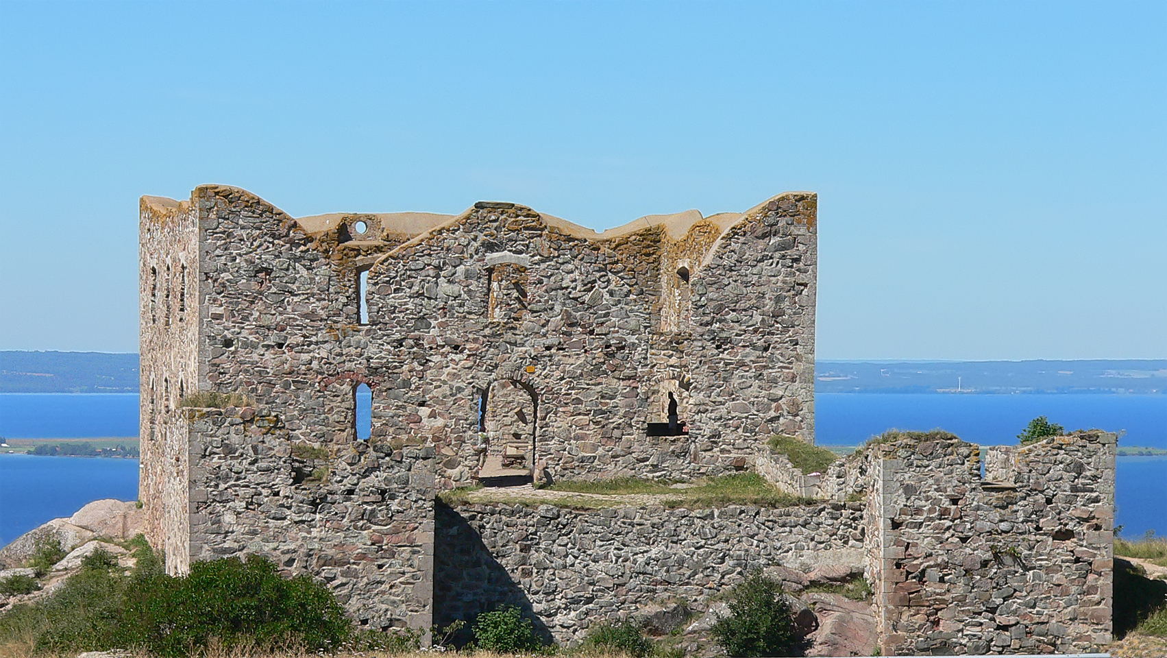 With the lake Vättern in the background.